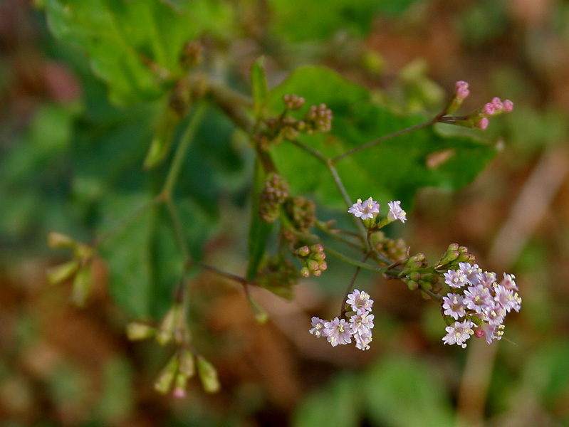 erect spiderling Boerhavia erecta in Hyderabad, India.